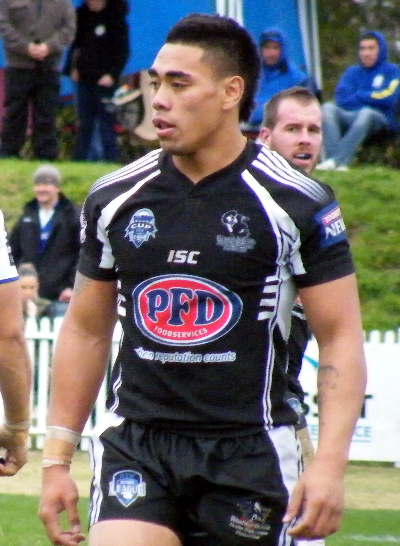 Ken Sio